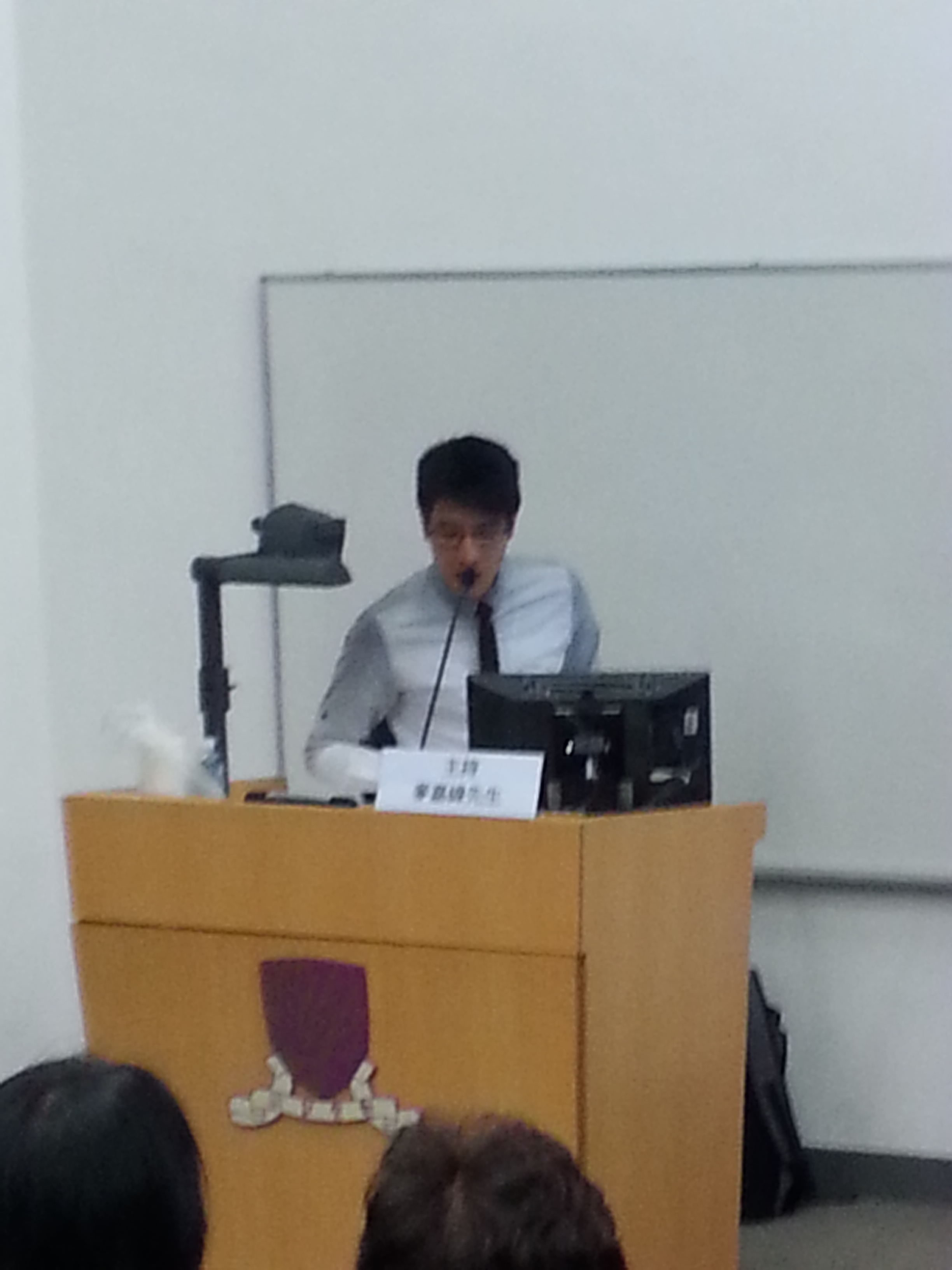 Eric Mak Ka-wai presiding forum